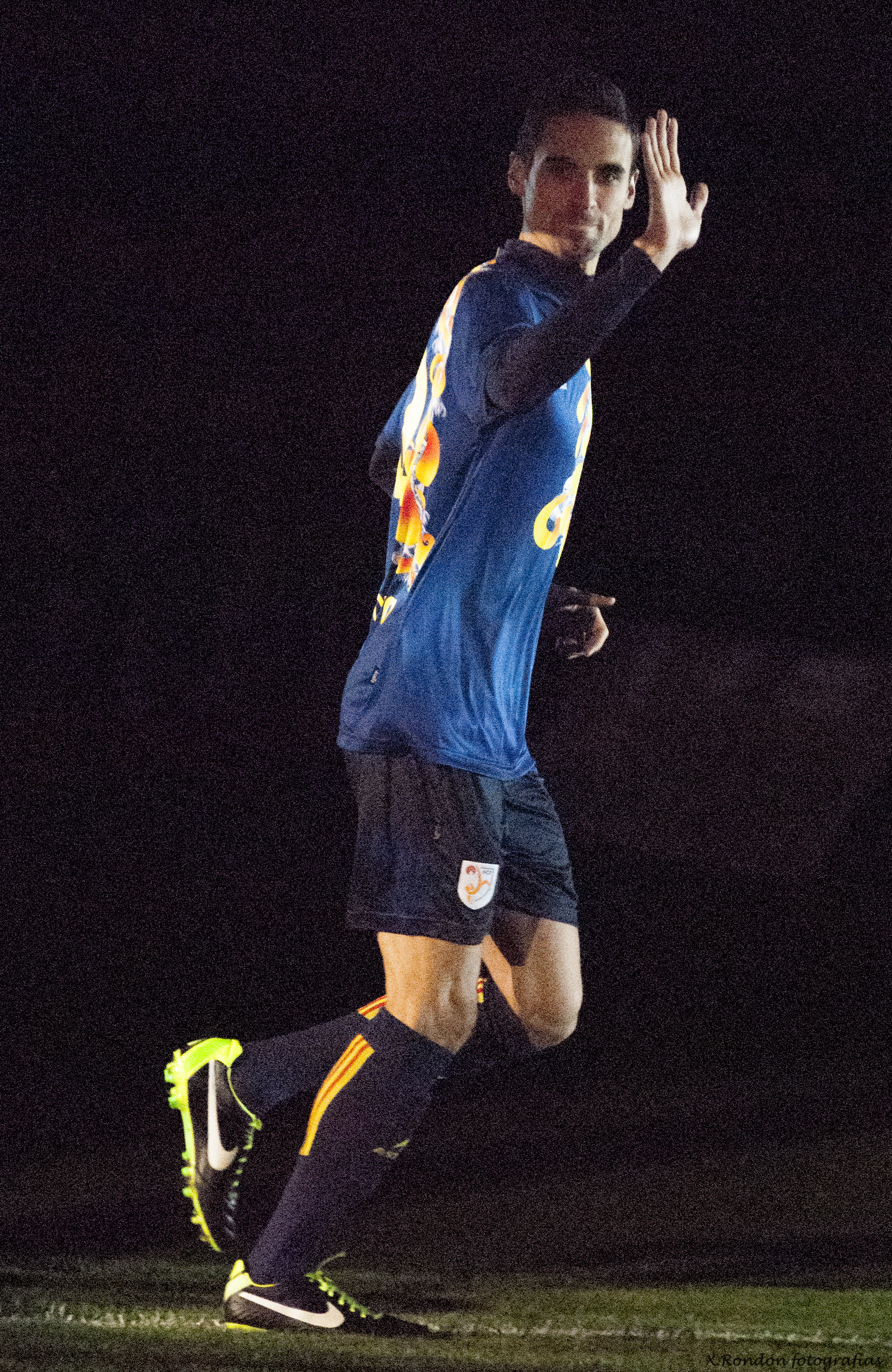 Raúl Rodríguez before friendly match Catalonia vs. Nigeria